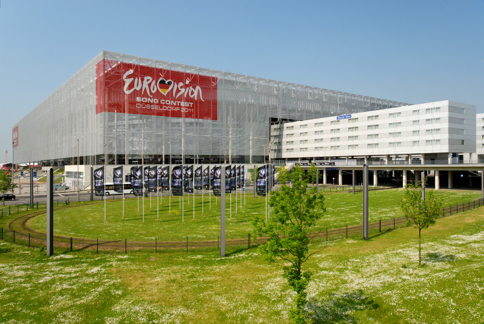 ESC arena in Düsseldorf-Stockum, Germany